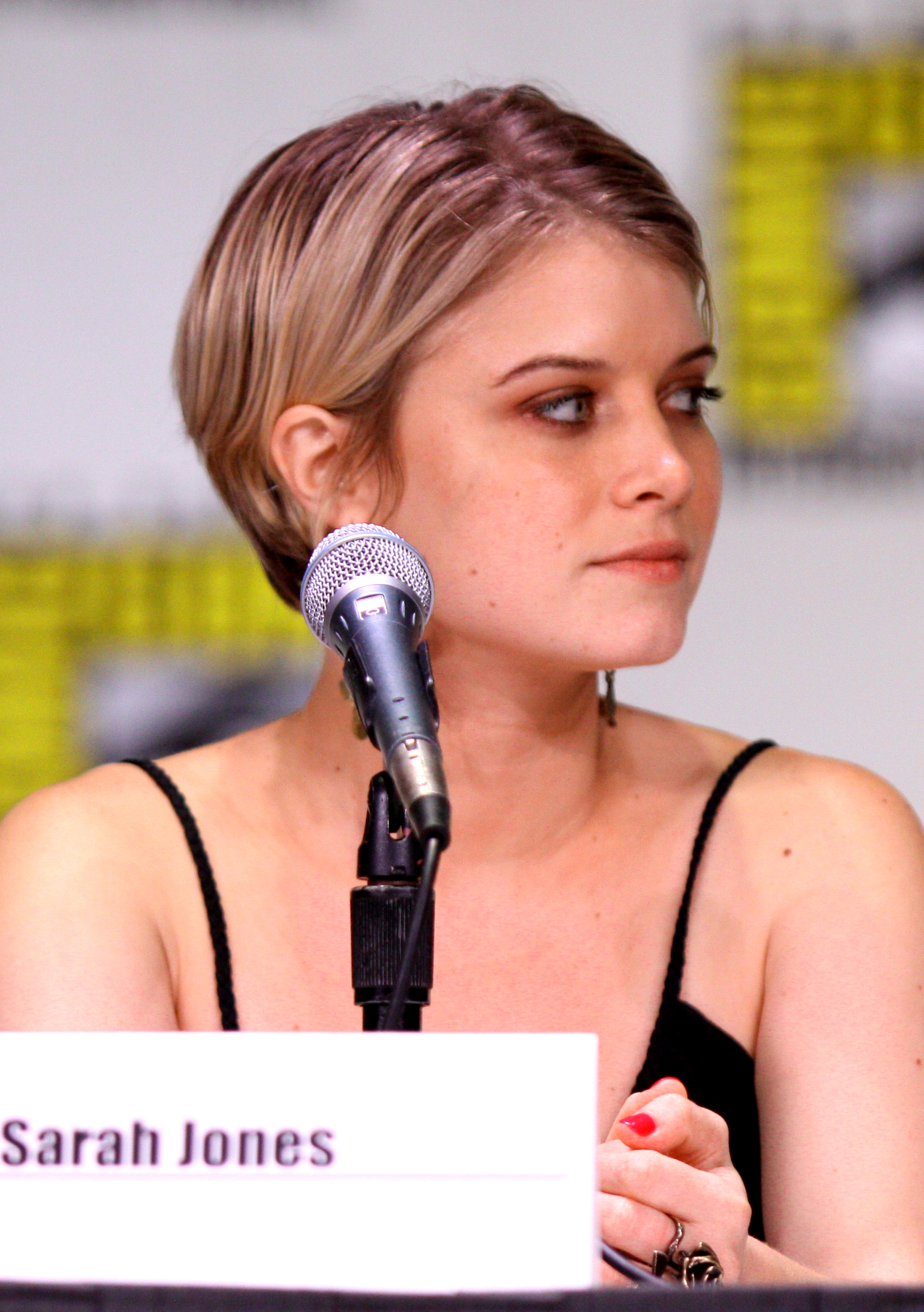 Sarah Jones at the 2011 Comic Con in San Diego